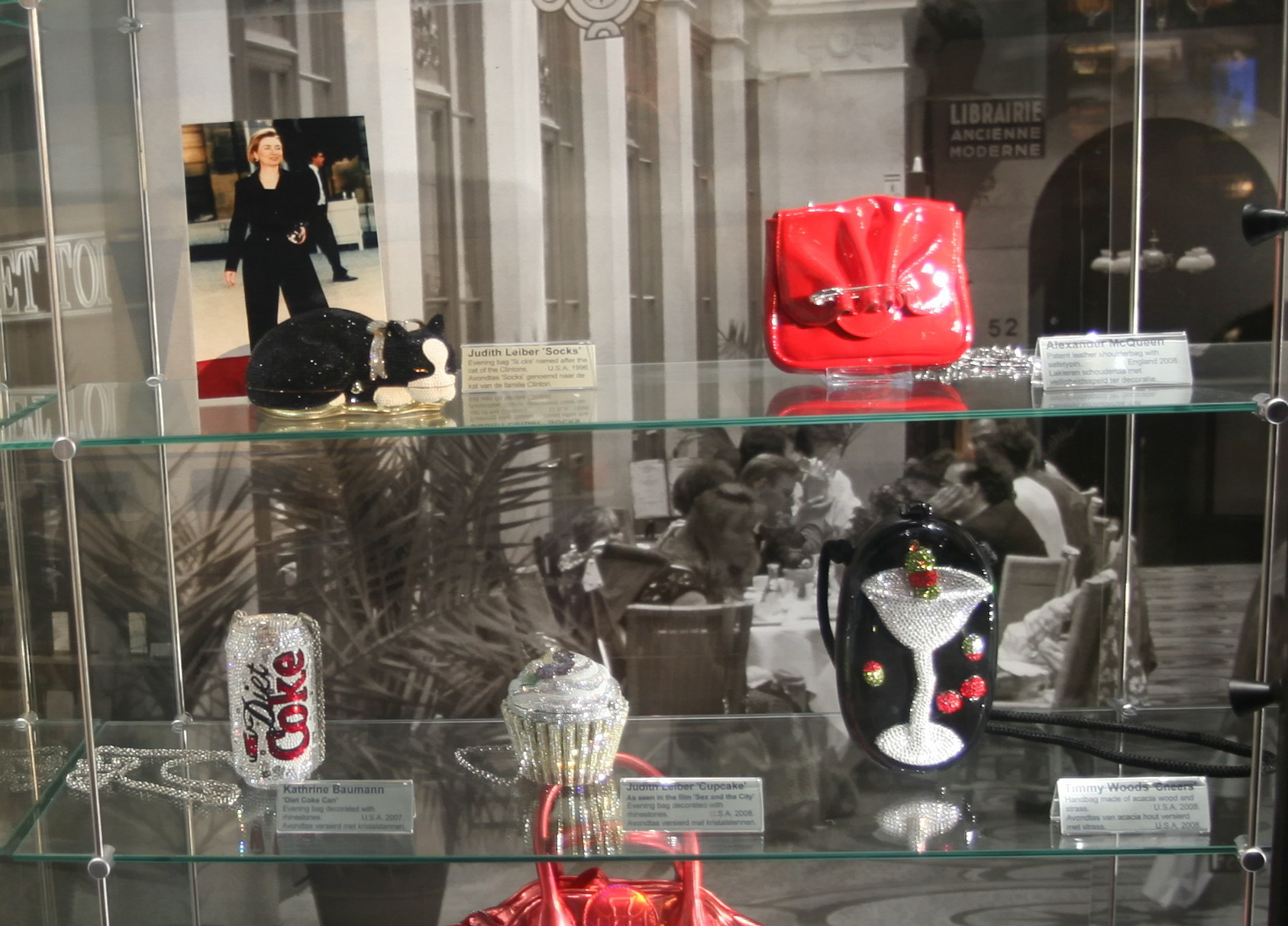 Showcase - Museum of Bags and Purses, Amsterdam